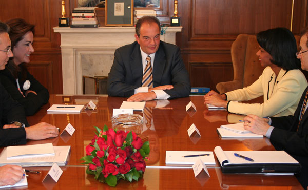 Athens, Greece. Secretary Rice meets with Greek Foreign Minister Theodora Bakoyannis (left) and Greek Prime Minister Costas Karamanlis (center) at Maximos Palace in Athens. State Department Photo.